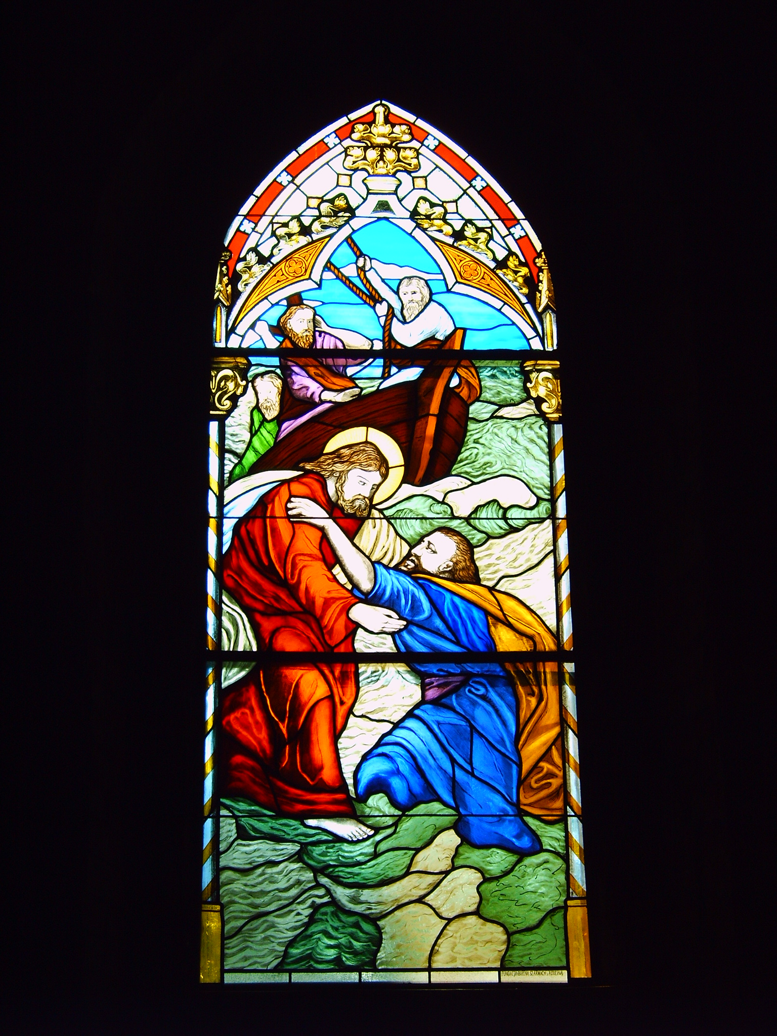 Poland, Mielno, church, stained glass - Walk on water